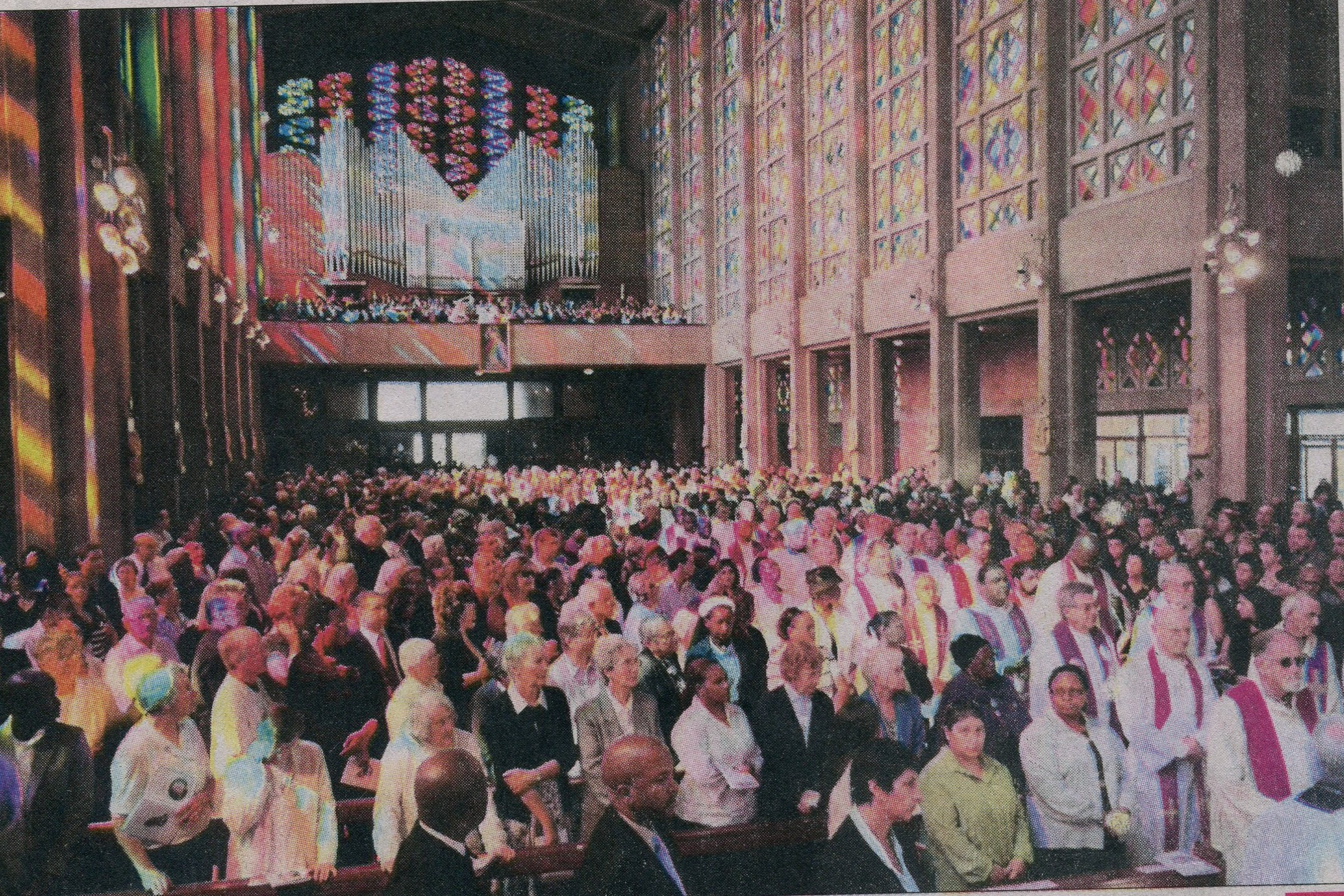 Cathedral of Christ The King in the city of Johannesburg. These are works from the Johannesburg Heritage Foundation released to be used in the Joburgpedia which I'm a Wikipedian in Residence.